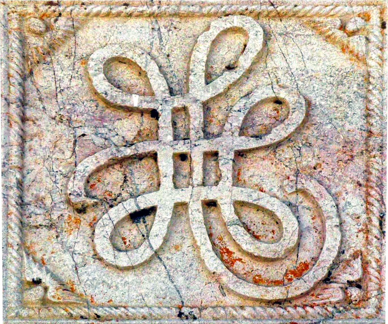 Seal of the 1st Count of Avintes cut in marble on the exterior wall of the regimental depot in Lagos, Algarve